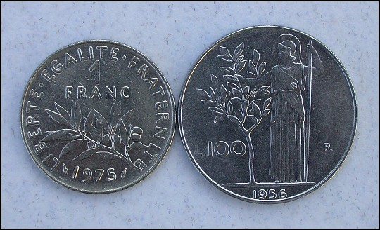 Two coins with olive motifs. 1 franc of France (1975) and 100 lire of Italy (1956).